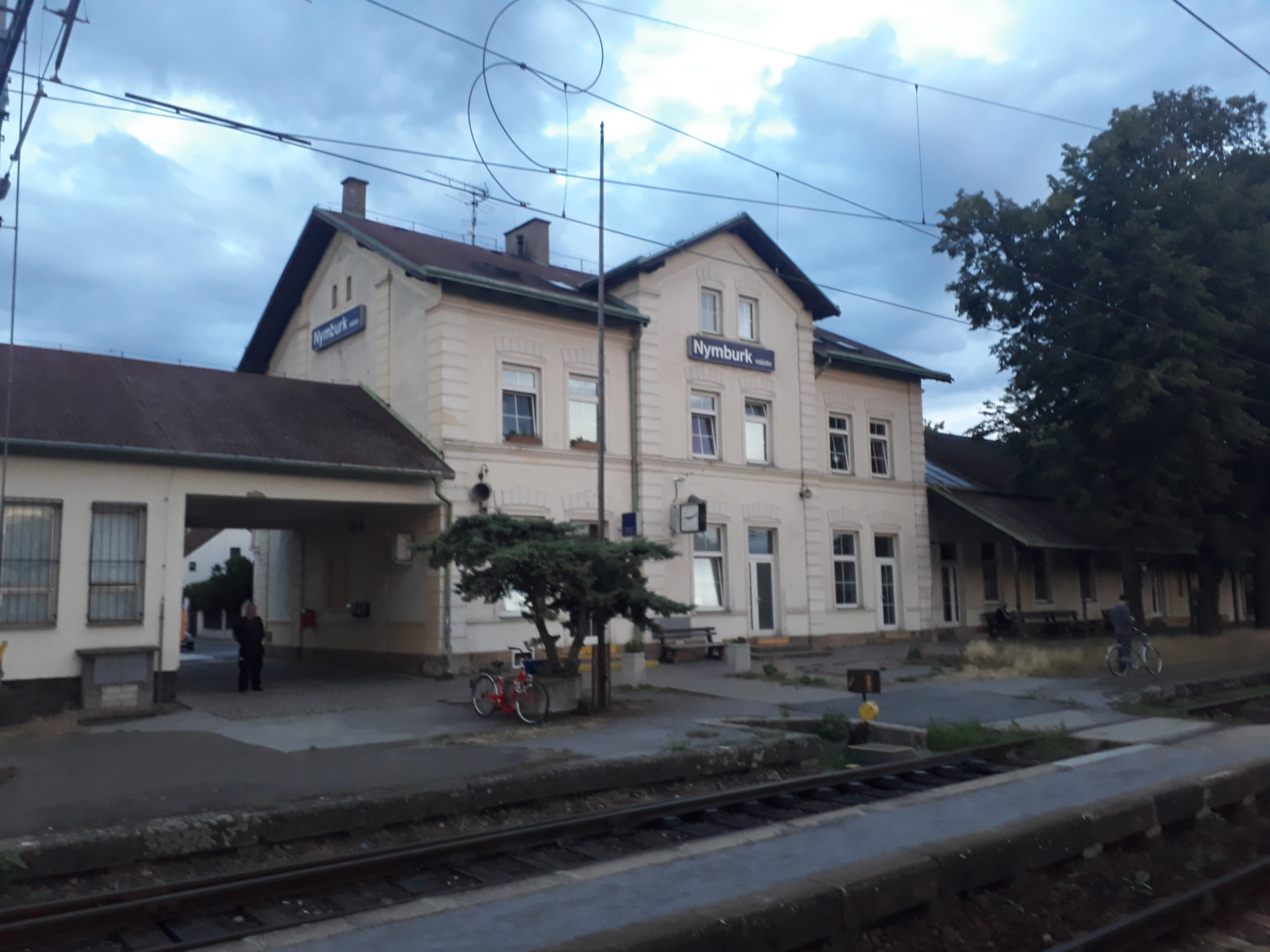 Nymburk město station building, view from the platforms